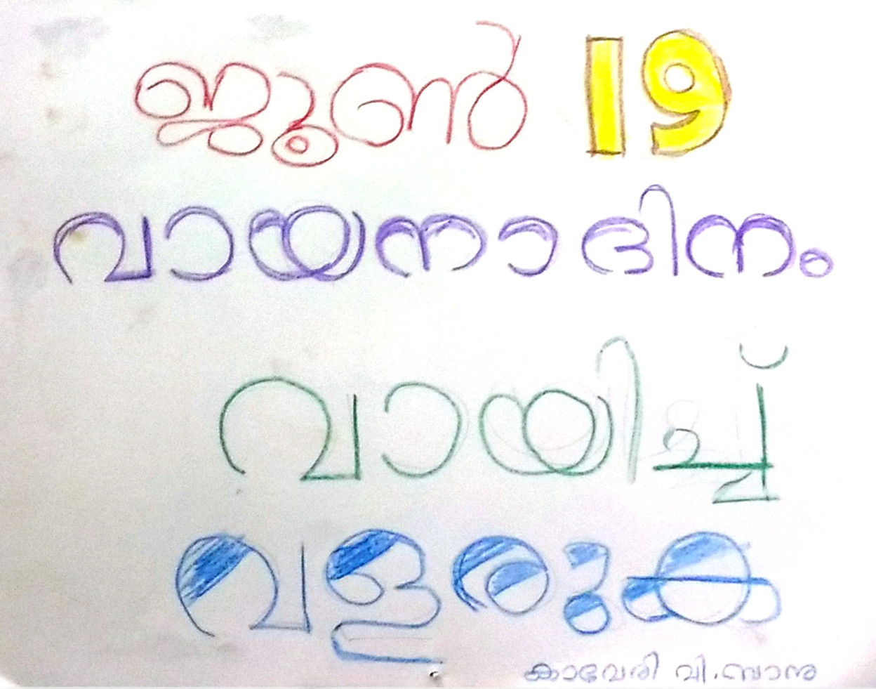 Sign from a school child in Kerala for the Day of Reading (June 19). It says "Read to Grow".